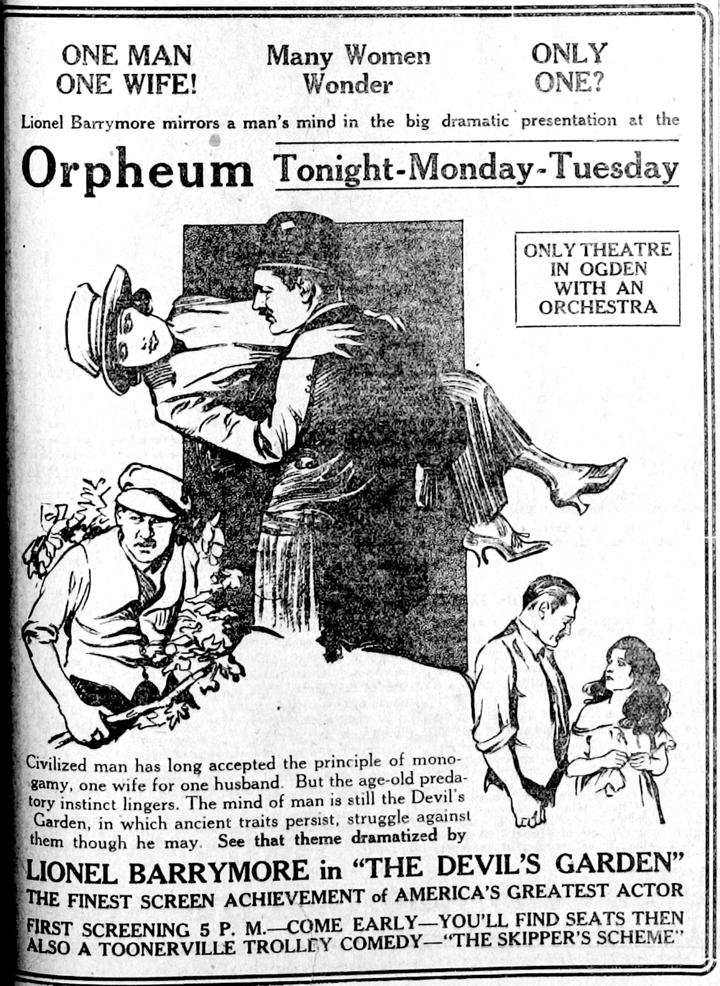 The Devil's Garden is a lost 1920 silent film produced by Whitman Bennett, directed by Kenneth Webb and released through First National Exhibitor's Circuit, later First National Pictures. This is a newspaper advertisement for the film.